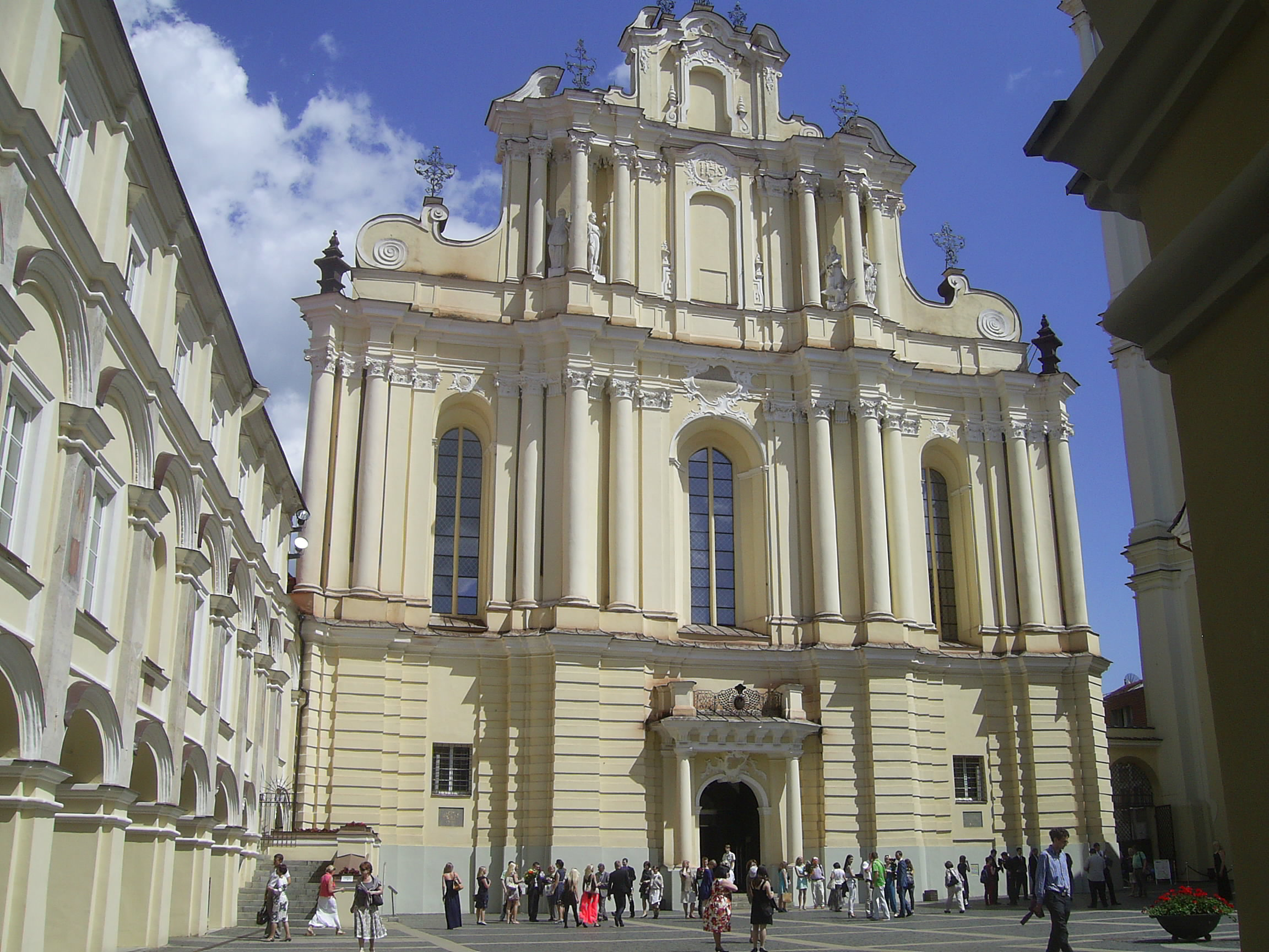 Late Baroque Style